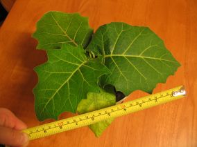 Cocona, Solanum sessiliflorum seedling few months old, plant grown and photograph taken by myself (JartsaP).